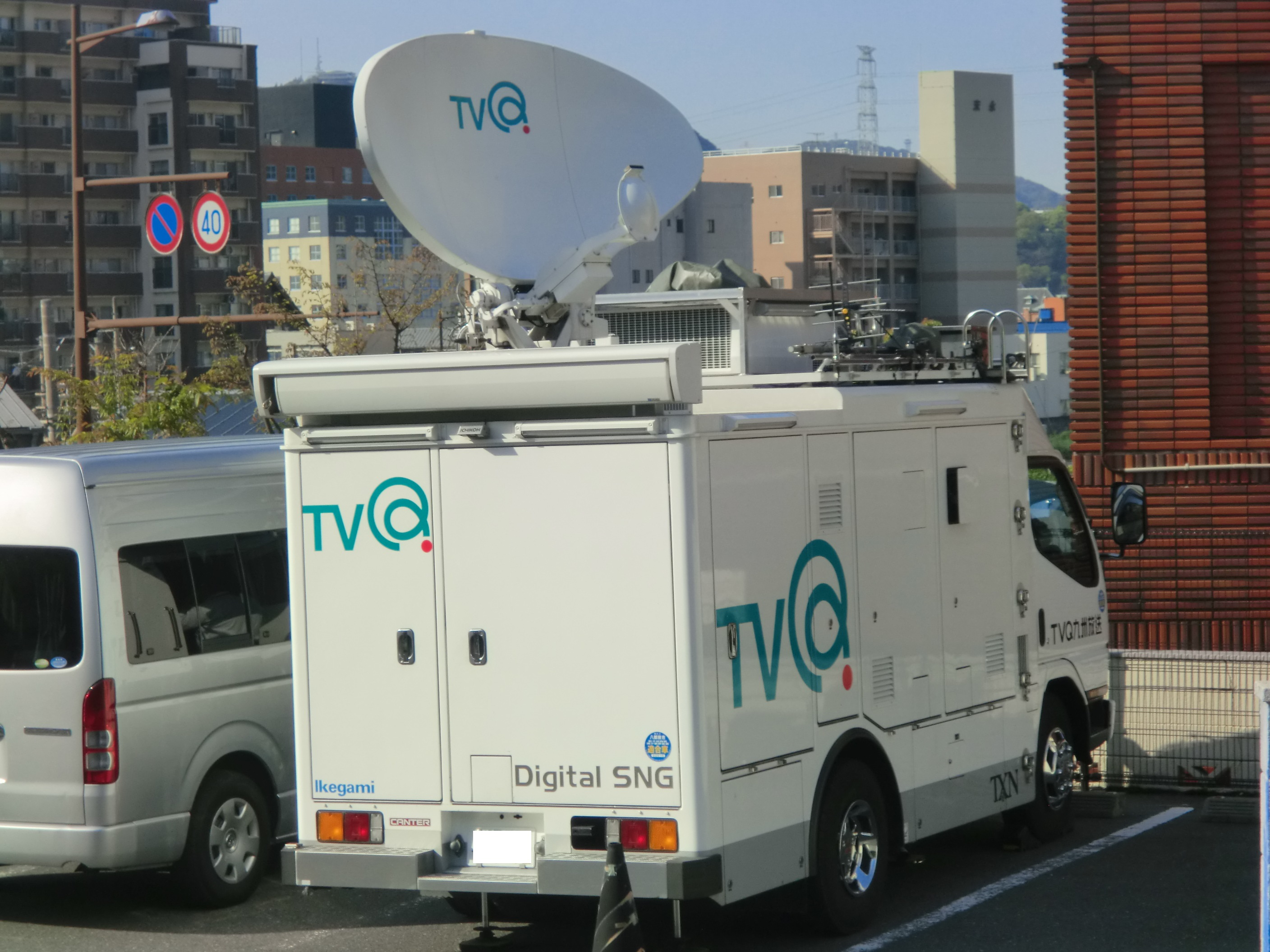 Outside broadcasting car of TVQ Kyushu Broadcasting.